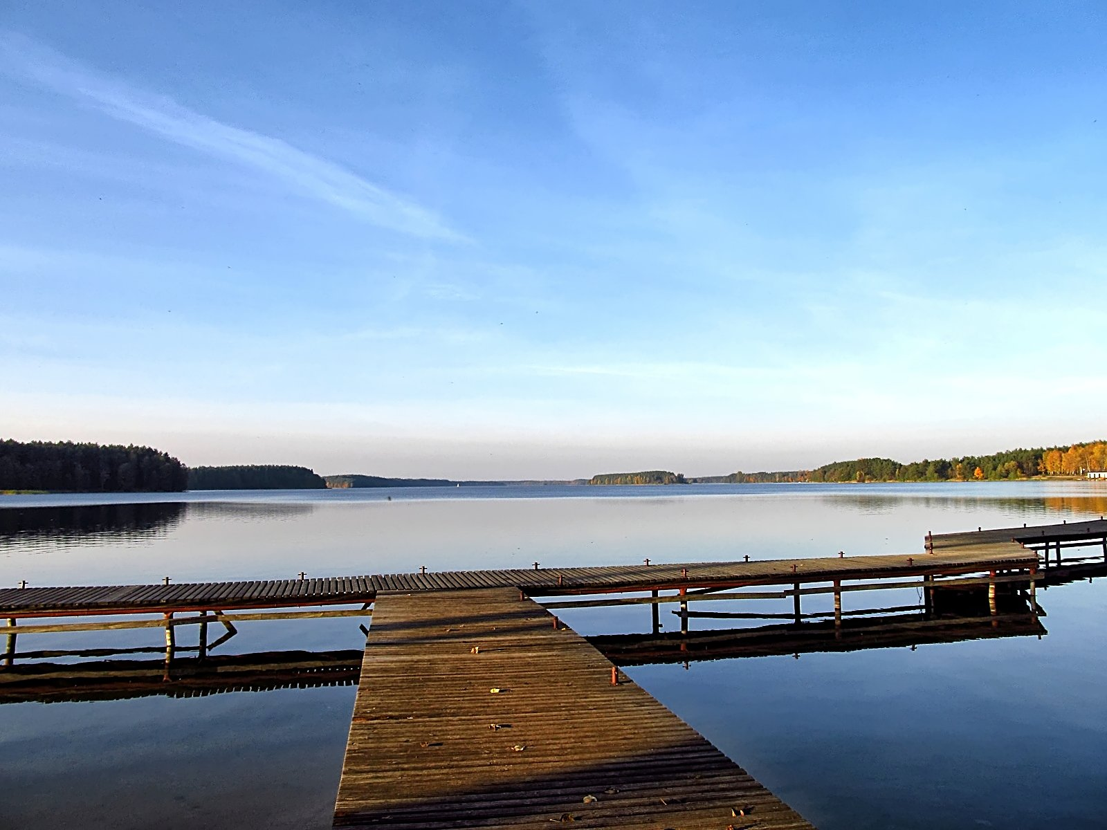 Empty the Wdzydzami